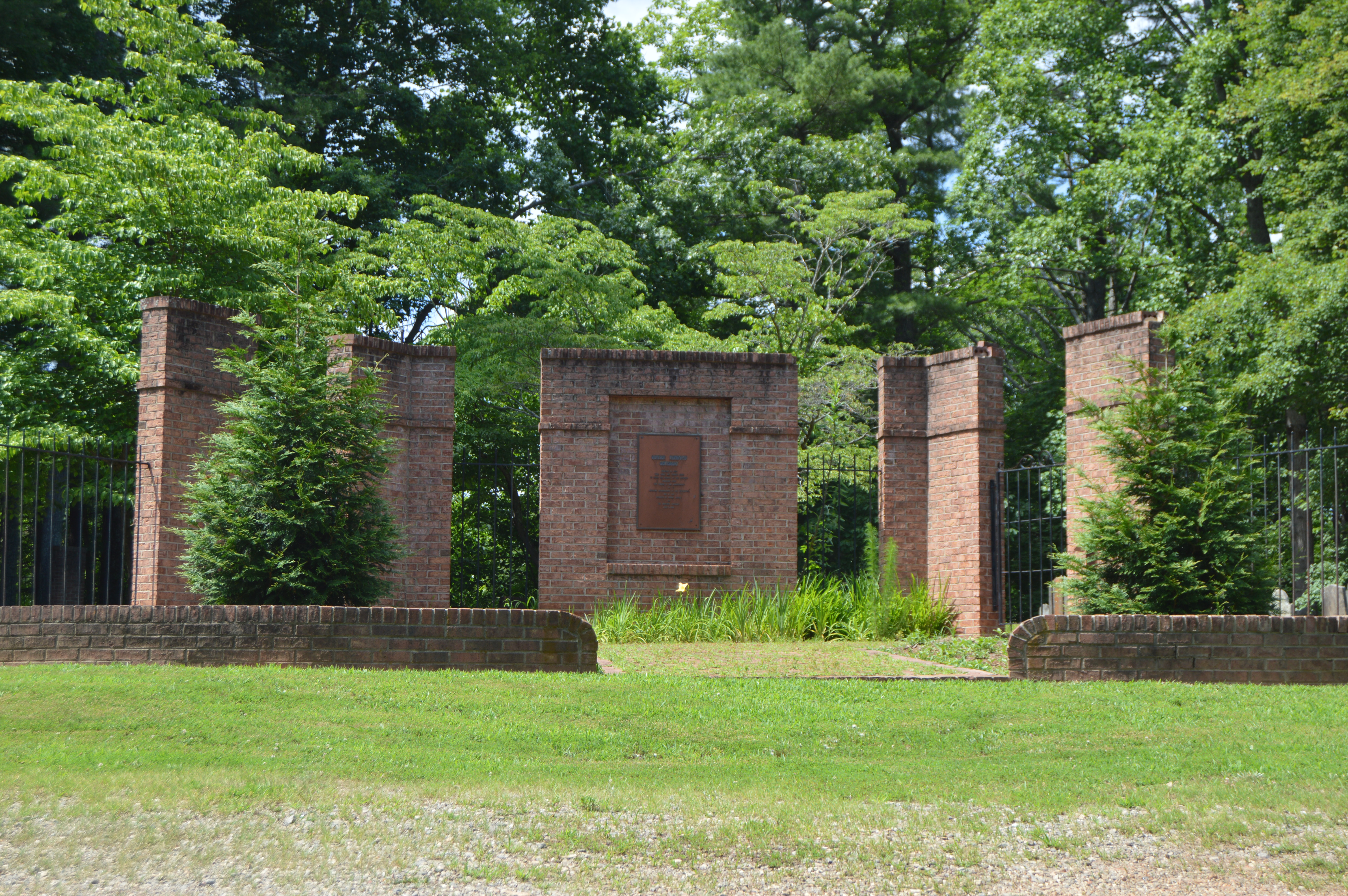 Entrance to the Quaker Meadows Cemetery, located at the northern end of Branstrom Drive just outside Morganton in Burke County, North Carolina, United States. The cemetery is listed on the National Register of Historic Places.